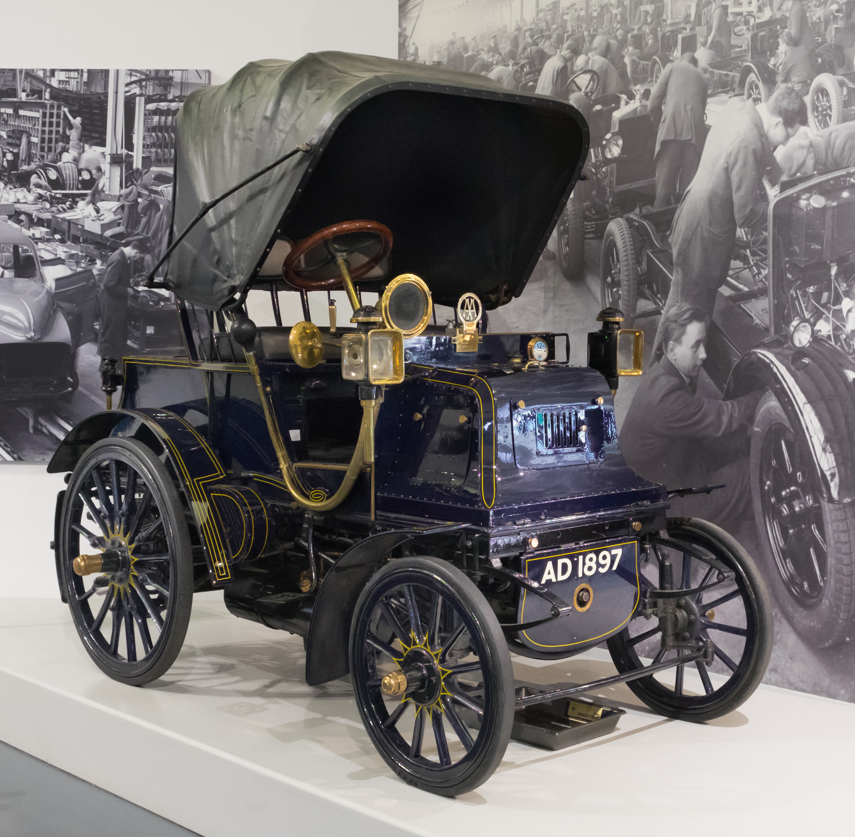 An 1897 Daimler Grafton Phaeton. This car, with registration mark AD 1897, is now kept at the British Motor Museum, Gaydon, UK.